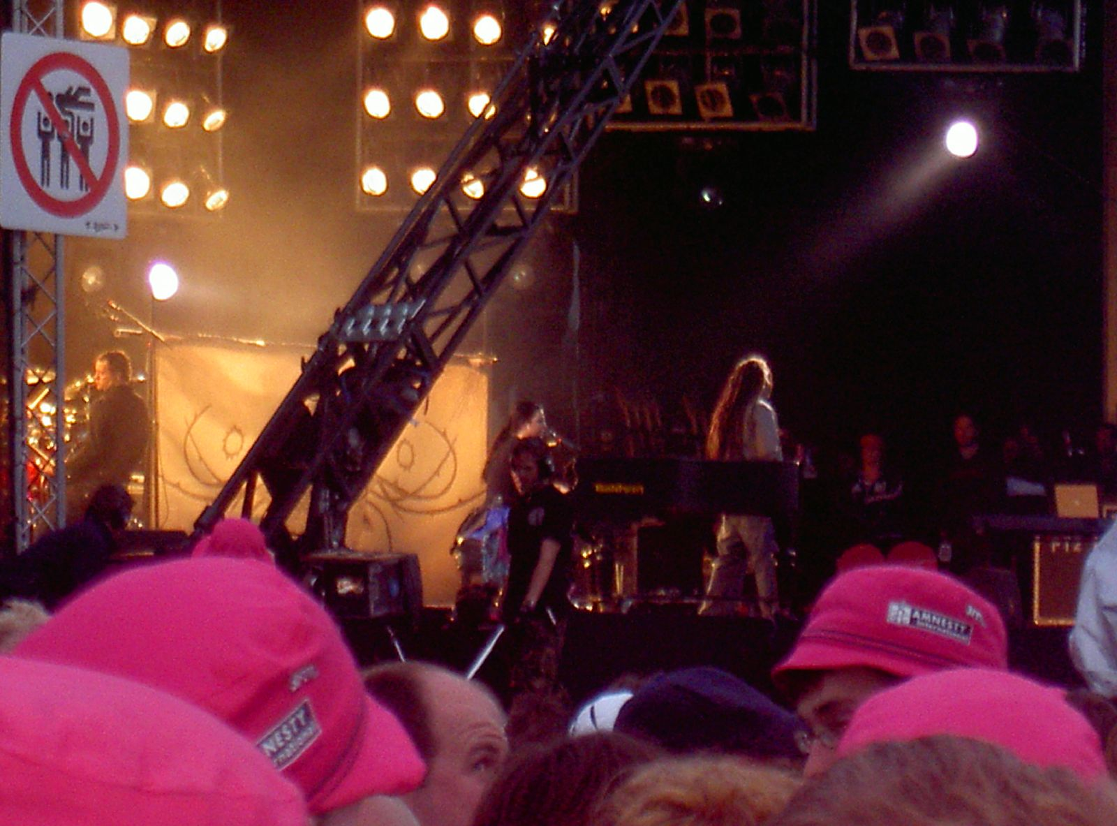 Evanescence performing at Pinkpop Festival in Landgraaf, Netherlands.